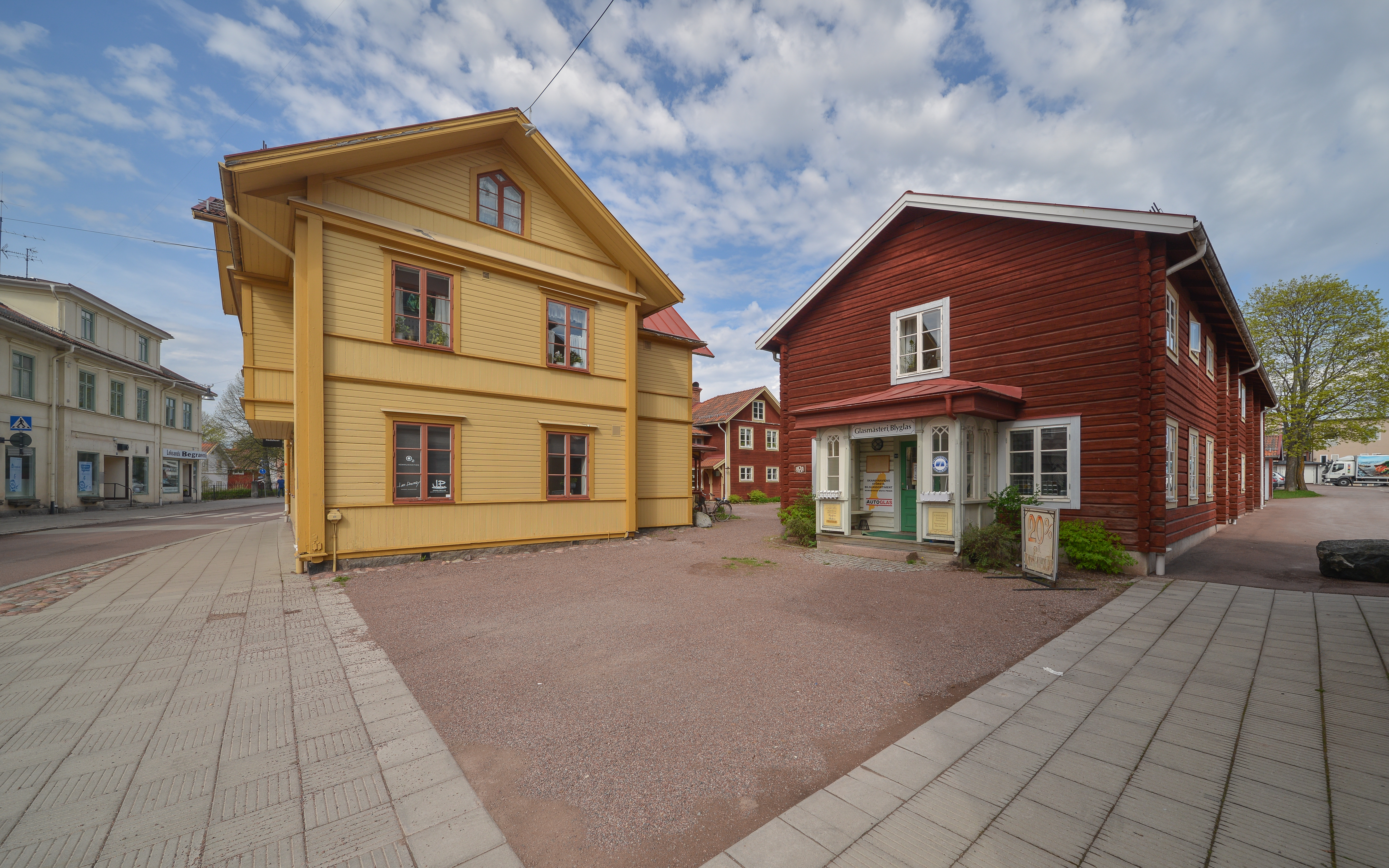 Buildings in Leksand.